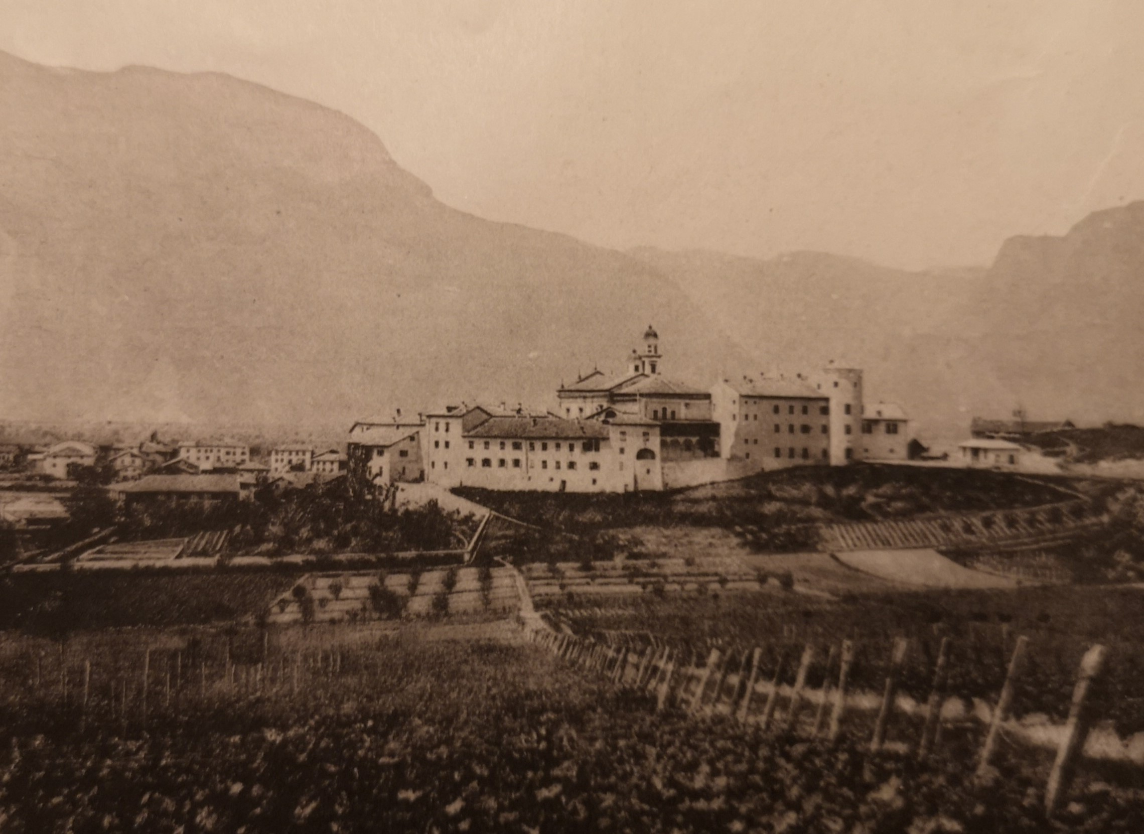 Picture of the San Michele Institute, seen from southeast, as of 1886